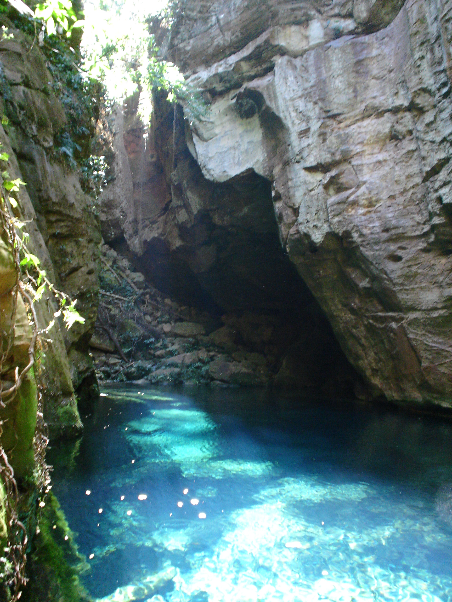 Small lake surrounded by springs near the Chapada das Mesas National Park.